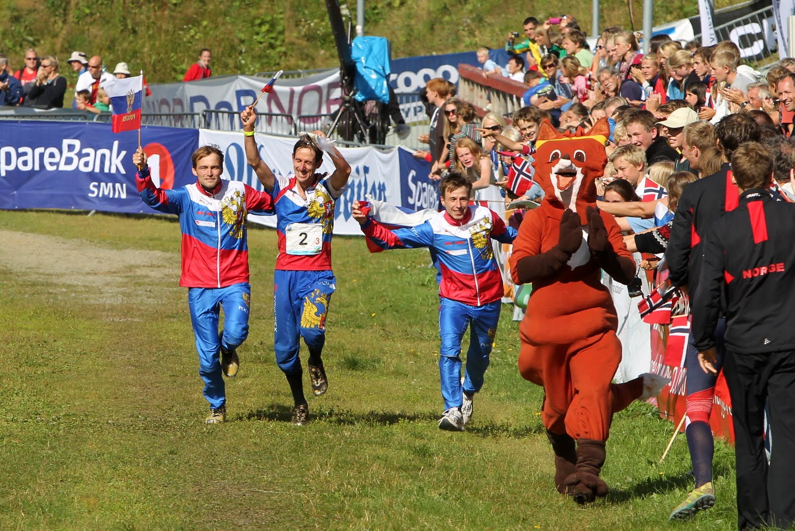 Russian team (Andrey Khramov, Valentin Novikov, Dmitry Tsvetkov) at the finish at World Orienteering Championships 2010 in Trondheim, Norway